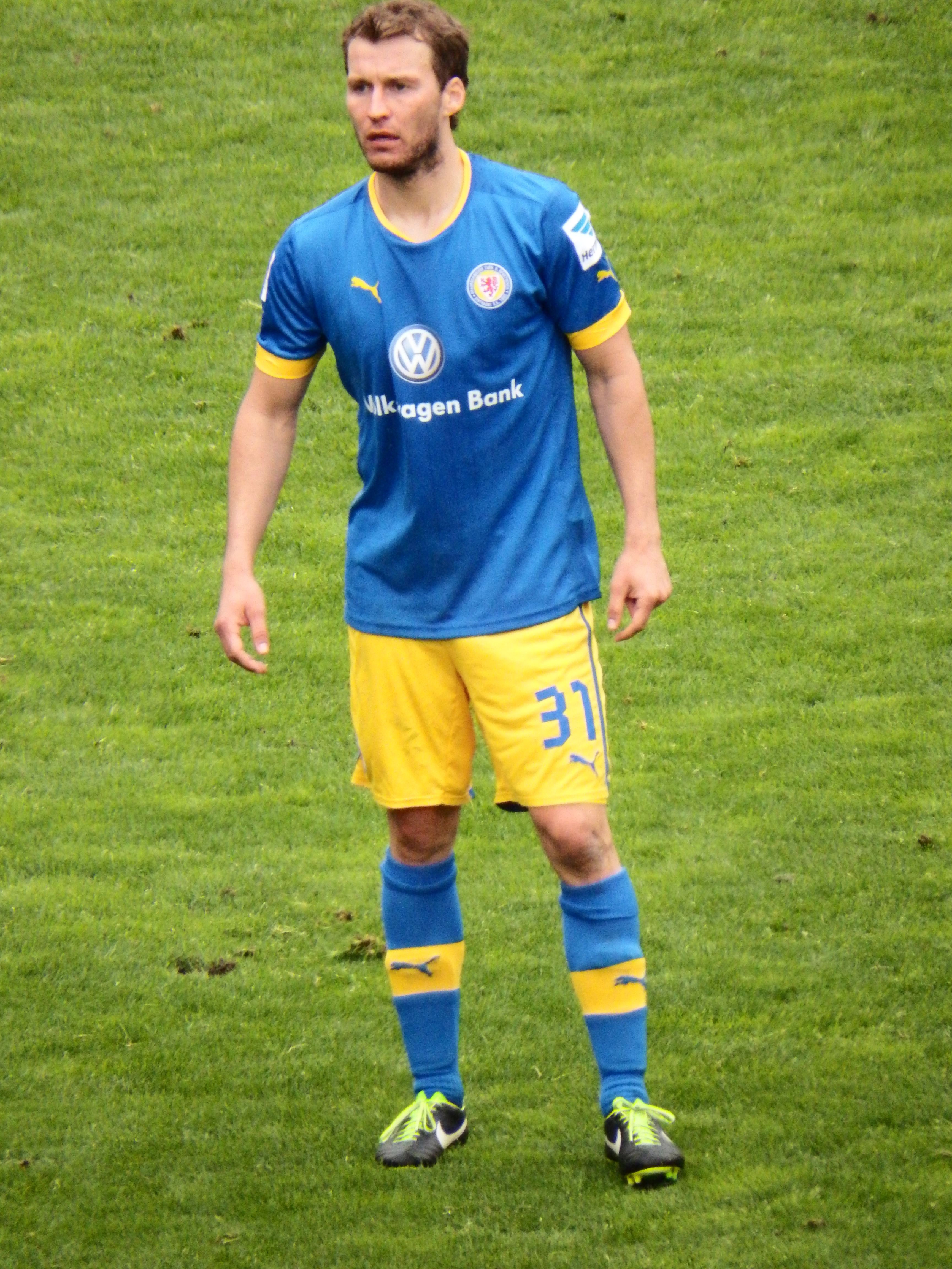 Marc Pfitzner as Player of Eintracht Braunschweig